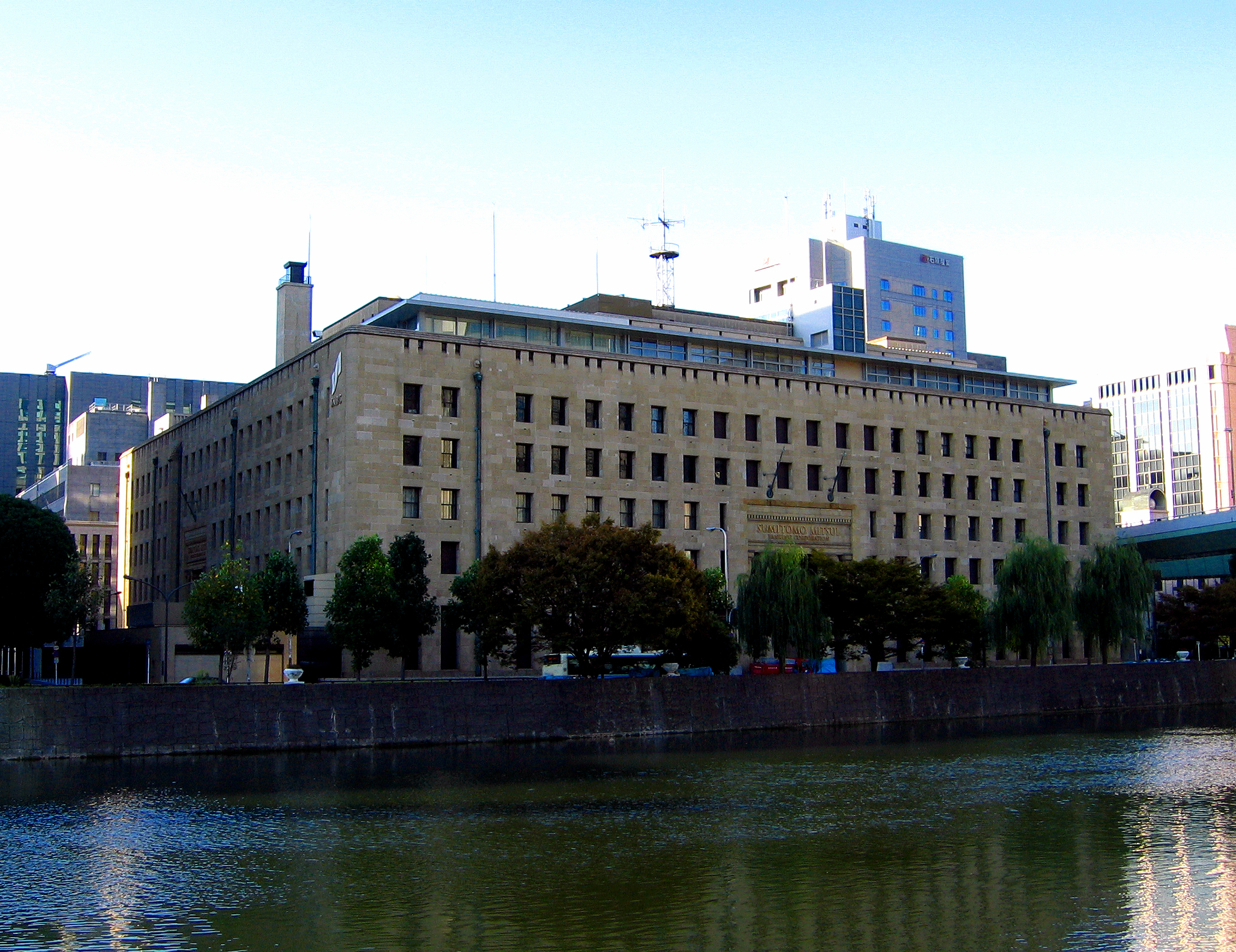 This photograph is the building of the Mitsui Sumitomo Bank Osaka head office.